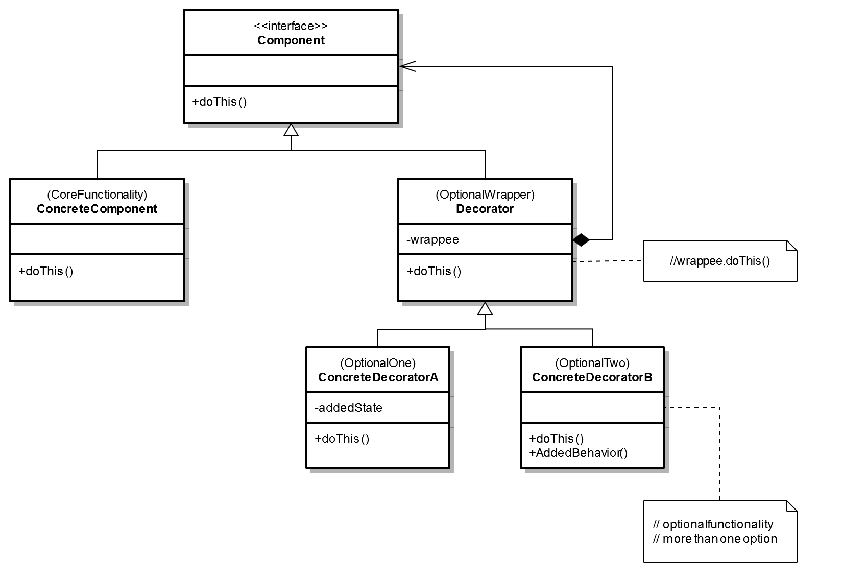 Decoratior pattern UML Diagram